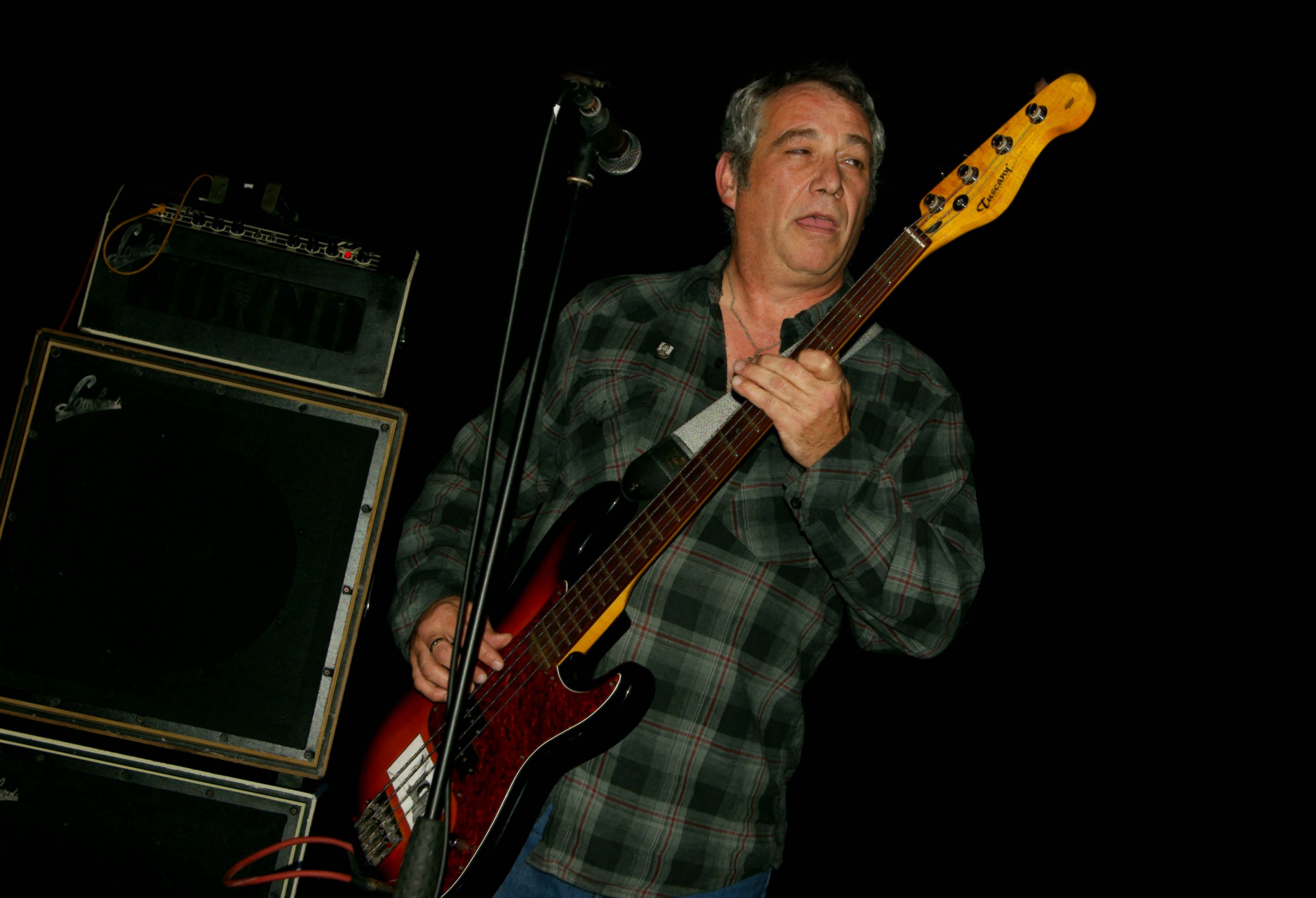 Mike Watt performing with Il Sogno Del Marinaio at the Hebden Bridge Trades Club on Wednesday 6th March 2013.